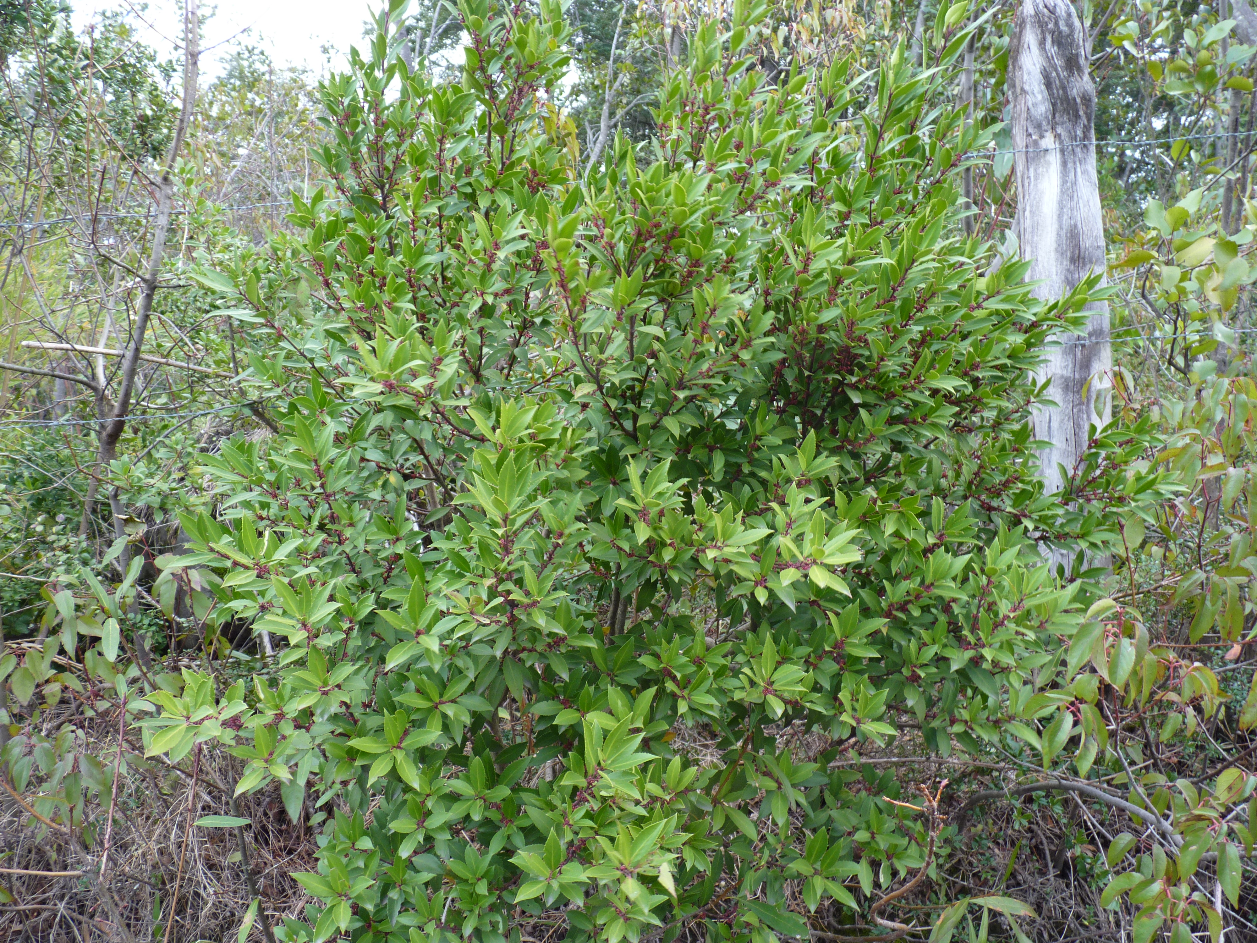 Maytenus magellanica